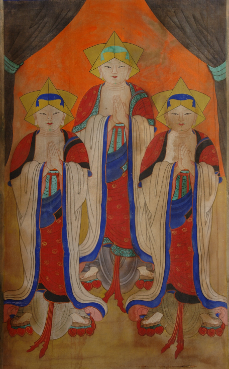 Painting of the Jeseok triplets, the gods of agriculture and fertility in Korean shamanism.